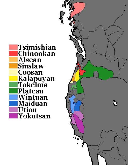 Penutian languages